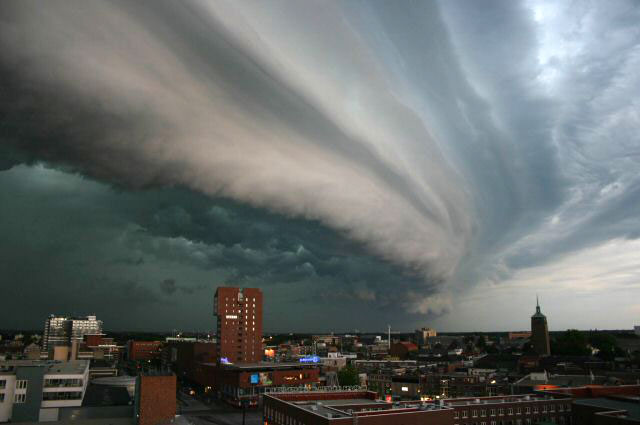 Rolling thunderstorm (Cumulonimbus arcus)